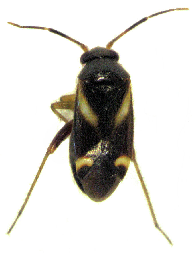 adult Ausejanus albisignatus (length about 2.5 mm)